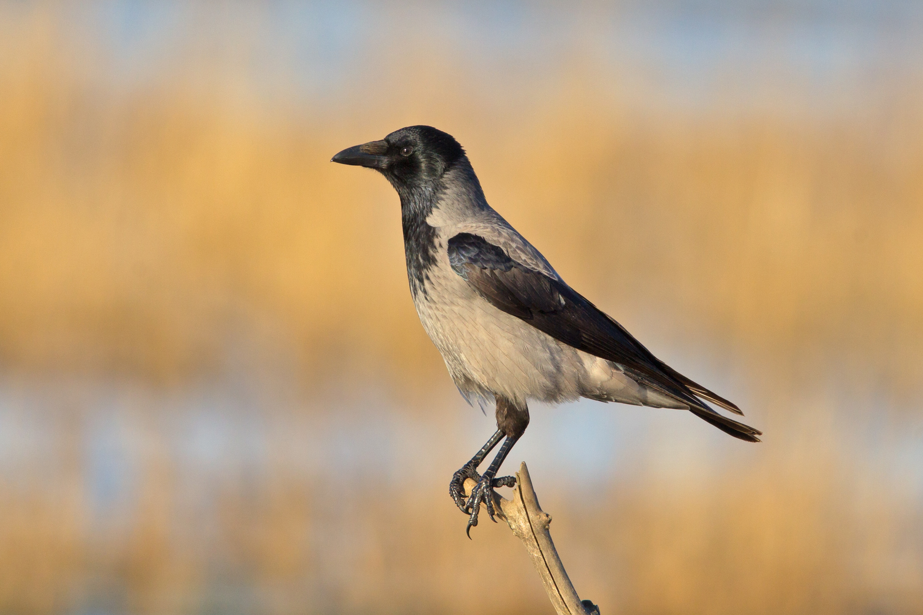 Hooded Crow